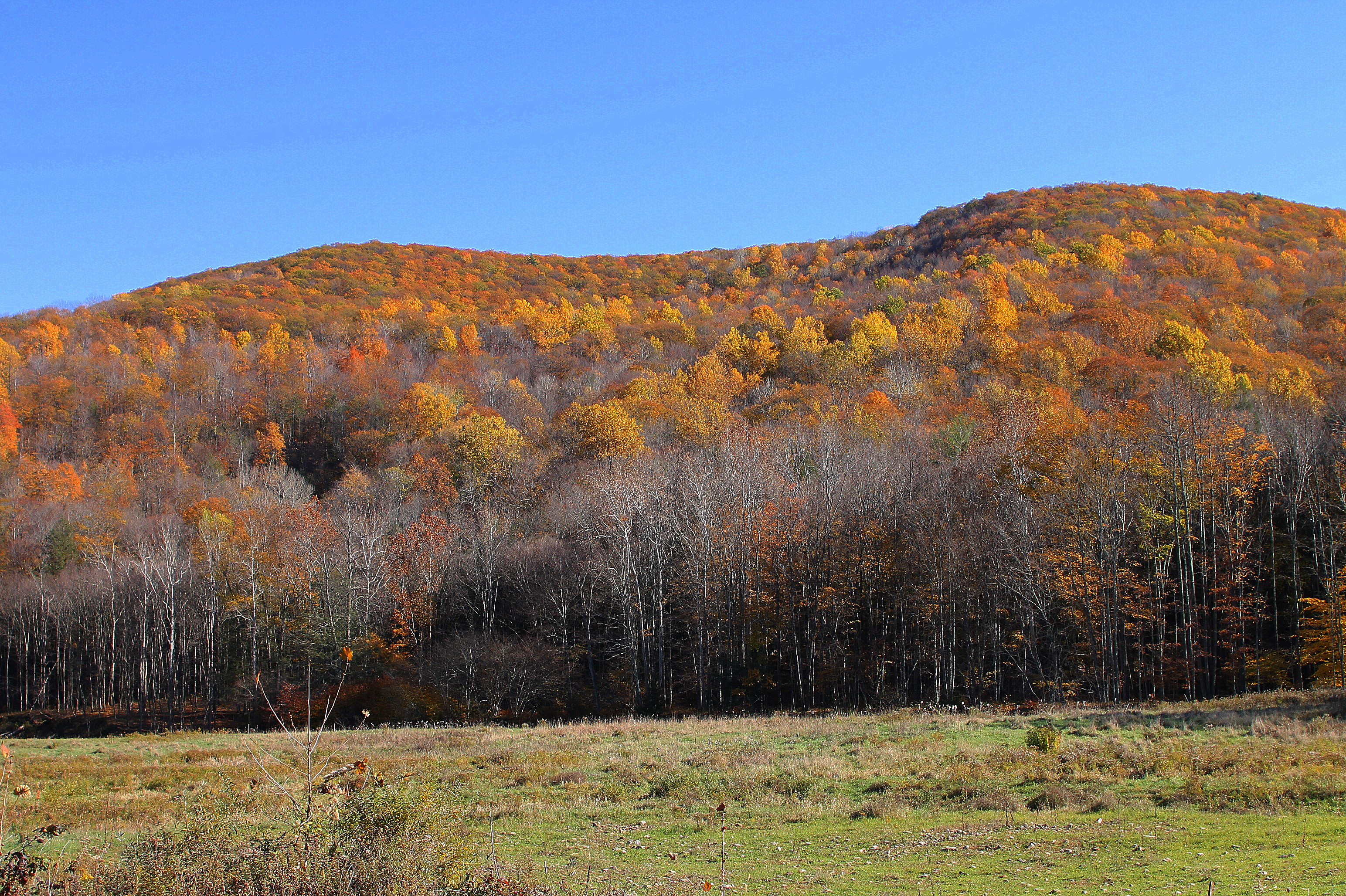 Mountain in Noxen Township, Wyoming County, Pennylvania in fall colors